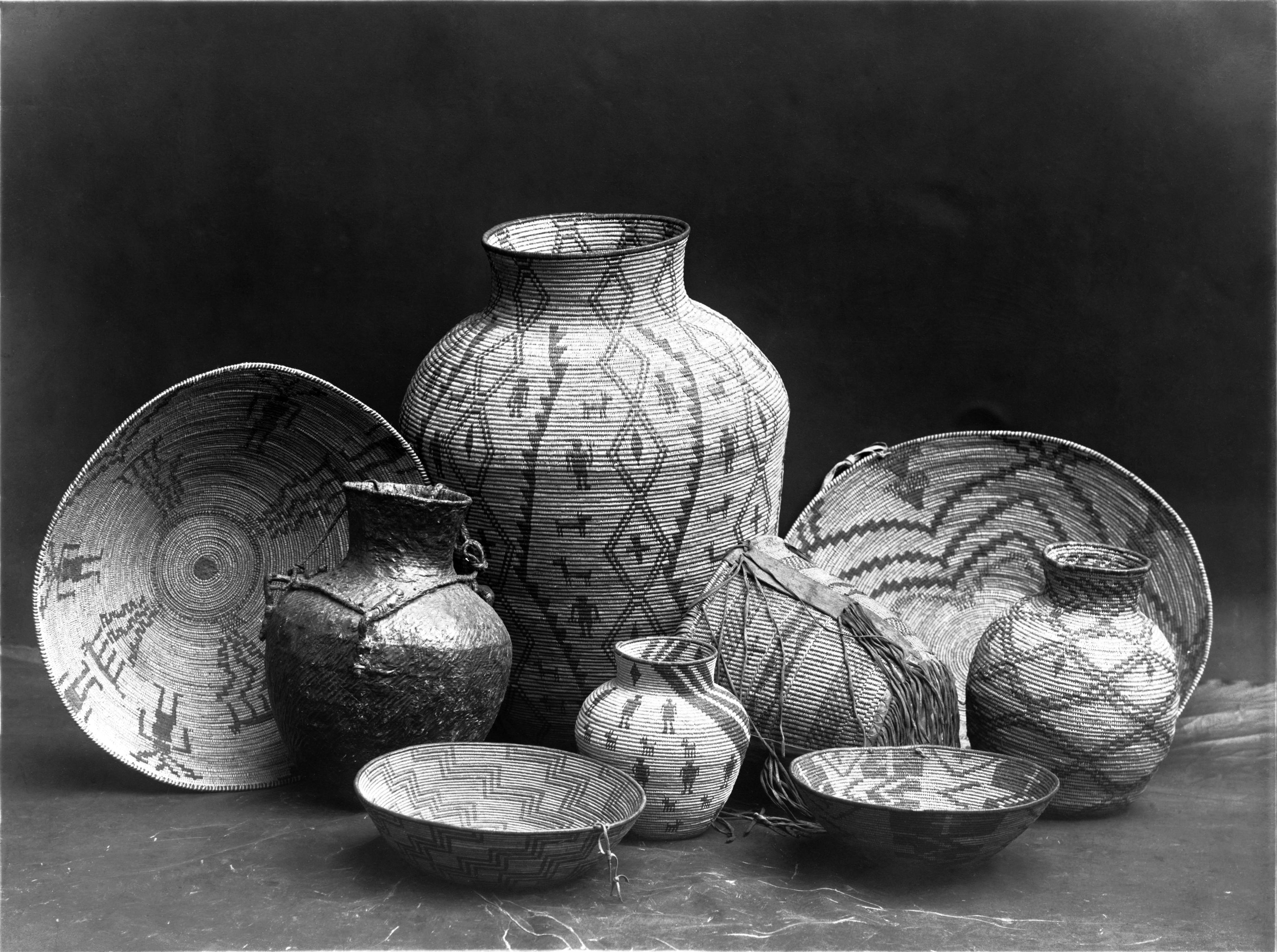 Nine original Apache containers: baskets, bowls and jars.